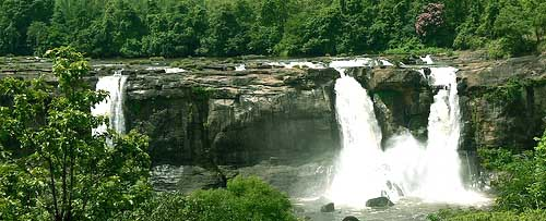 Athirappilly WaterFalls. The image is created and uploaded by user Jothishkumart 09:02, 3 August 2006 (UTC)